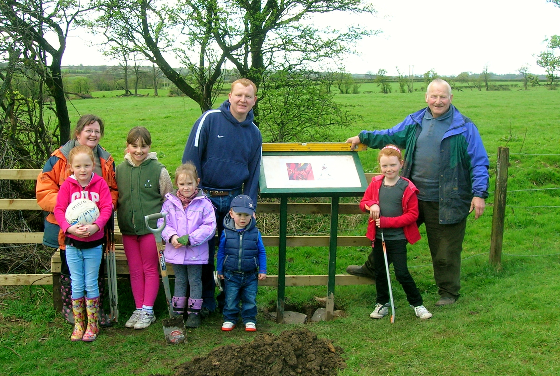 A new stile, footbridge and information board for the Dead Man's Planting, Barrmill, North Ayrhsire, Scotland.